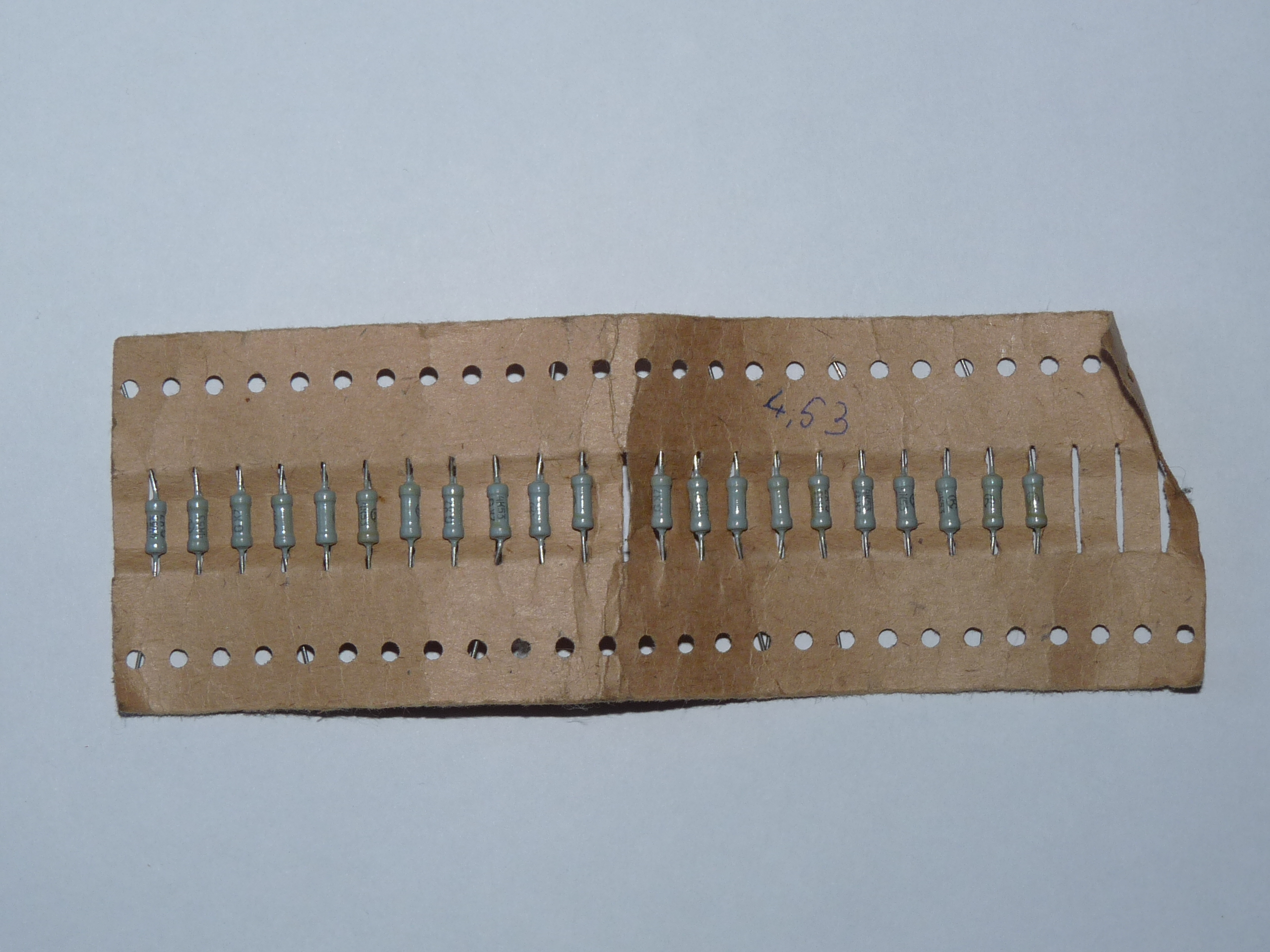 Old USSR resistors in original packaging